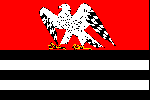 Municipal flag of Sokoleč village, Nymburk District, Czech Republic.